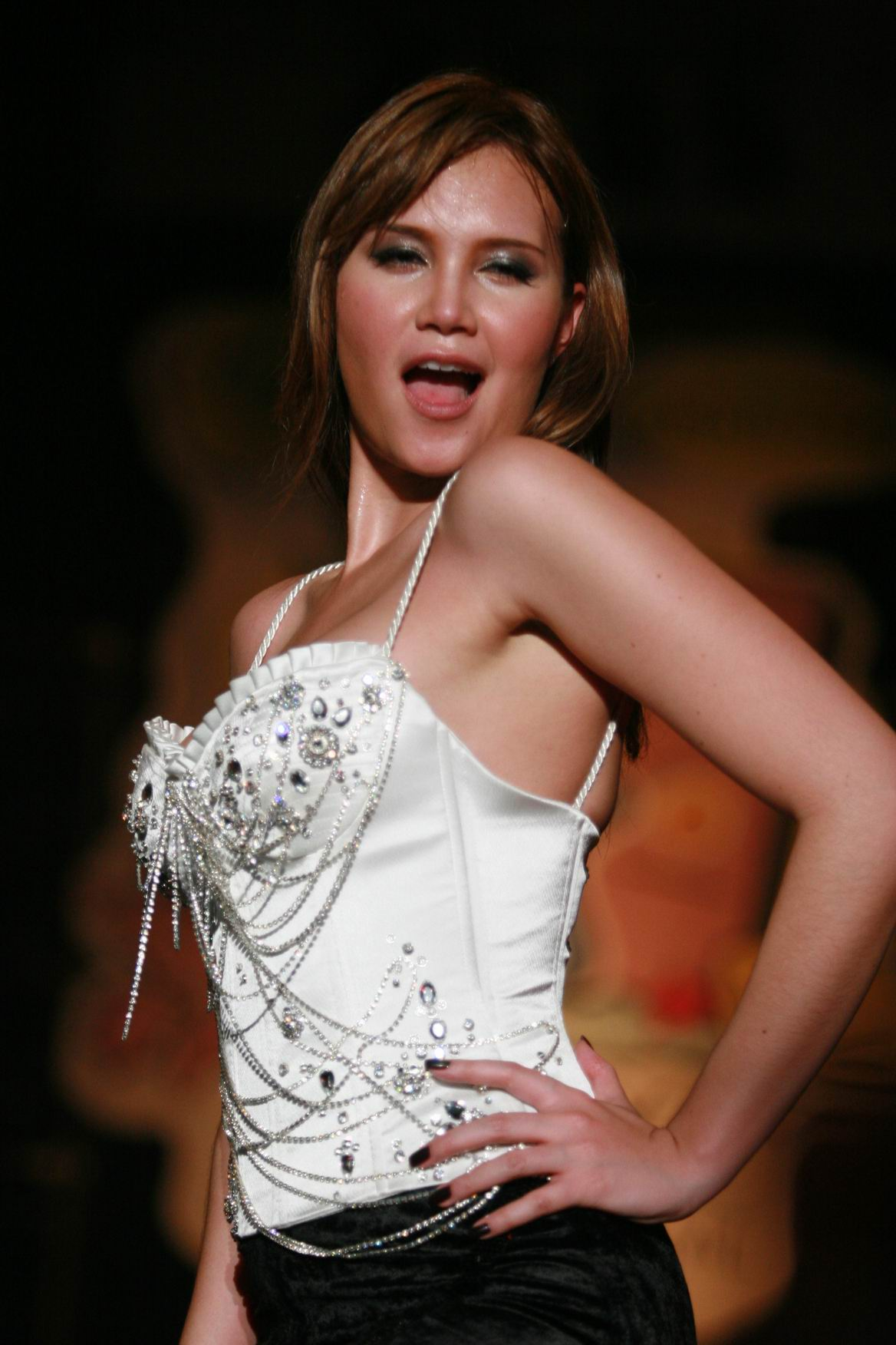 Tata Young at Pattaya Music Festival, Thailand, March 2007.